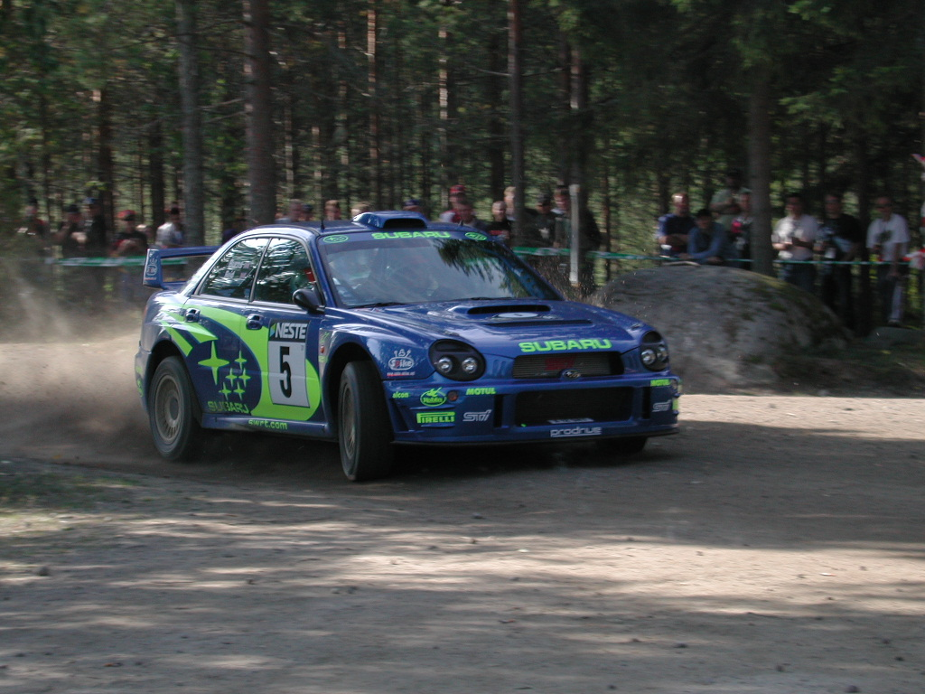 World Rally Championship WRC Rally Finland 2001